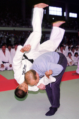 OKINAWA, JAPAN. President Putin meeting with young athletes at the Gushikawa sports centre and performing judo exercises.